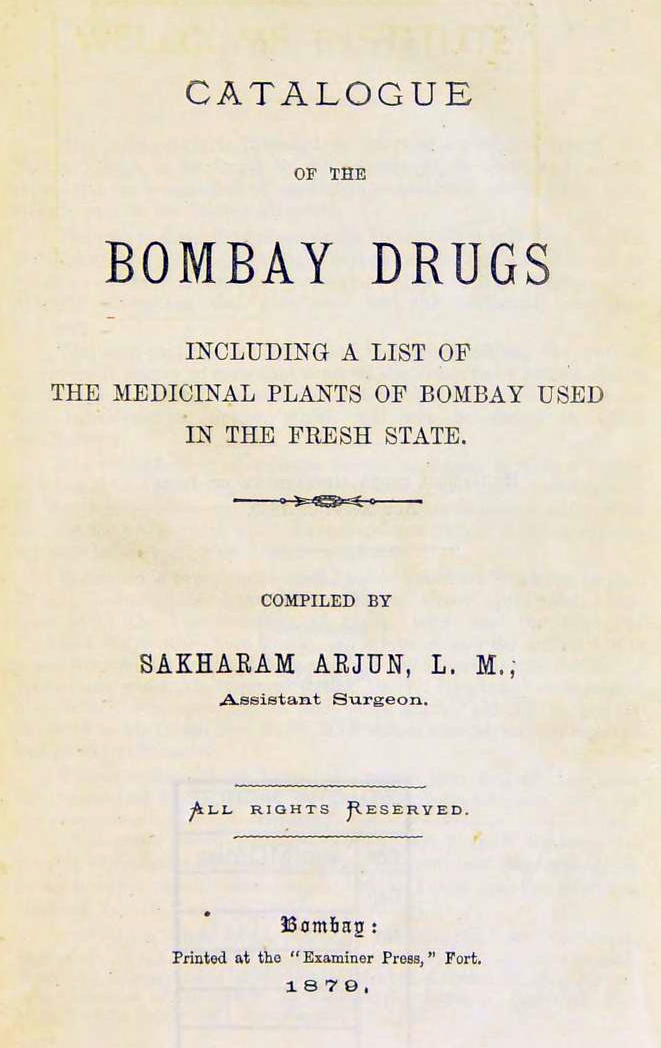 Title page of Catalogue of the Bombay drugs by Sakharam Arjun